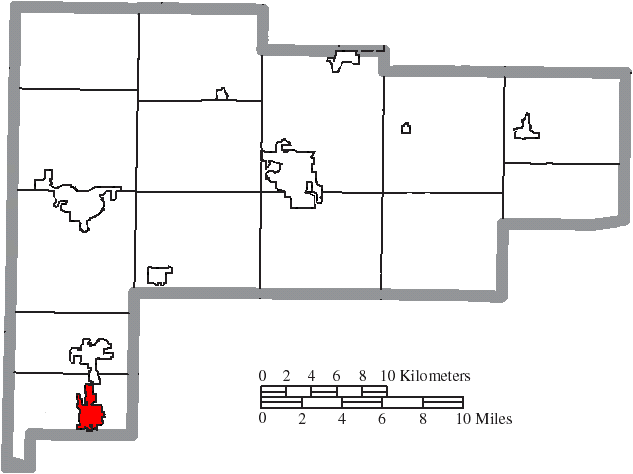 Map of the municipal and township boundaries of Auglaize County, Ohio, United States, as of the 2000 census, with the location of the village of Minster highlighted. Township borders are shown only in unincorporated areas in order to differentiate incorporated and unincorporated areas more clearly.